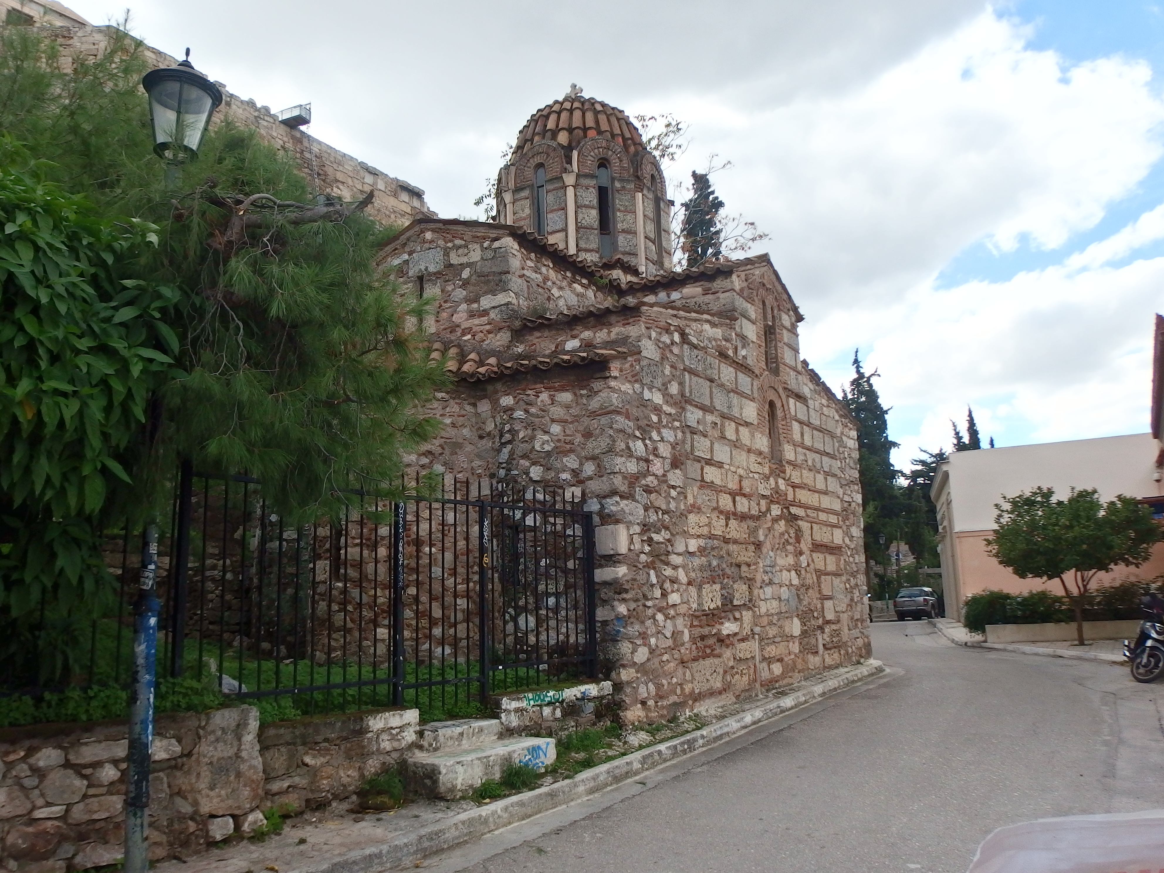 Athens, Church of the Transfiguration.